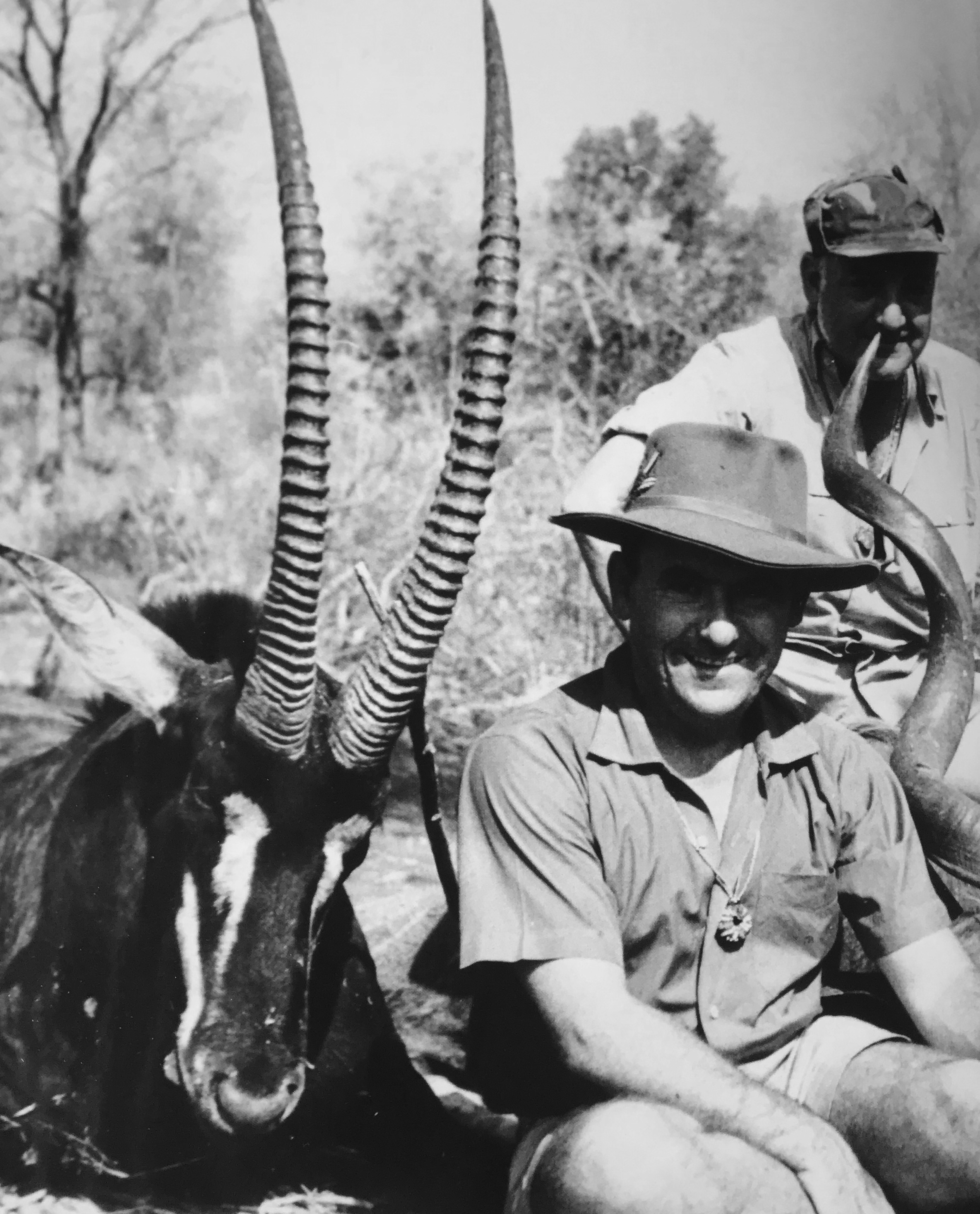 Alfonso de Urquijo y Landecho (front) son of the 1st Marquess of Bolarque, and the 19th Duke of Peñaranda de Duero (back) Fernando Fitz-James Stuart y Saavedra, posing with several harvested trophies during their Safari in Mozambique in 1967. Pictured, a Sable Antelope. The horns of a Kudu can also be seen.